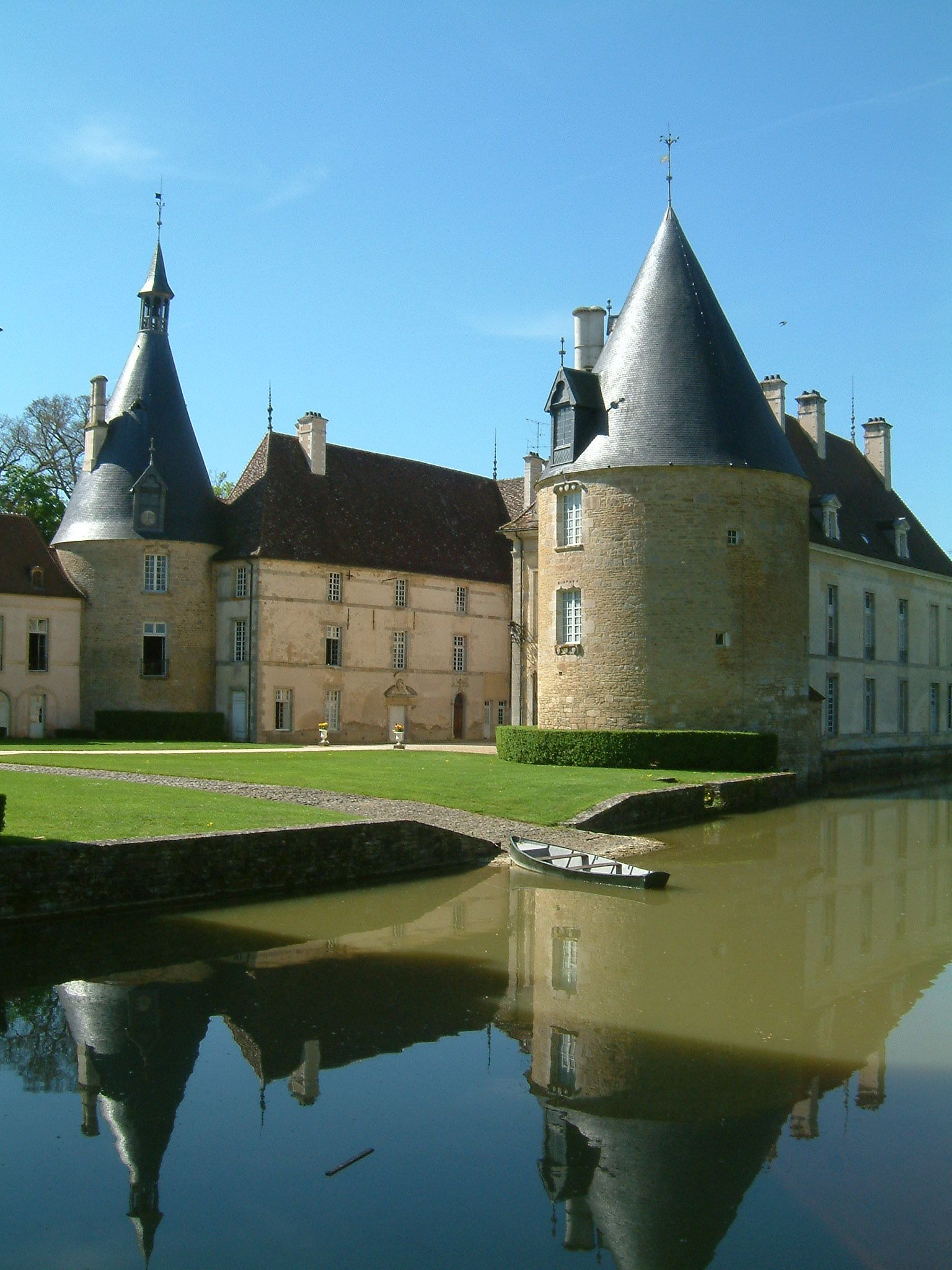 Castle of Commarin, Commarin, Côte-d'Or, Burgundy, France